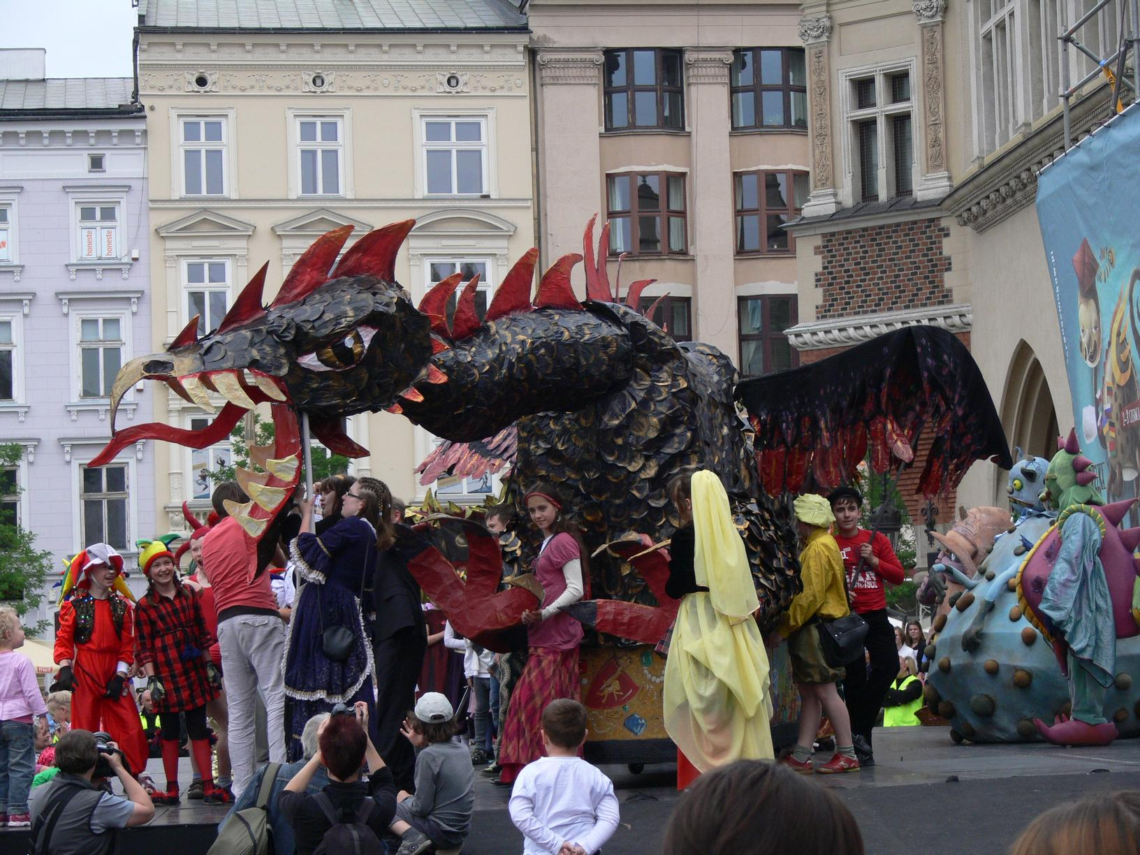 Parade of dragons in Cracow 2012; dragon AITVARAS